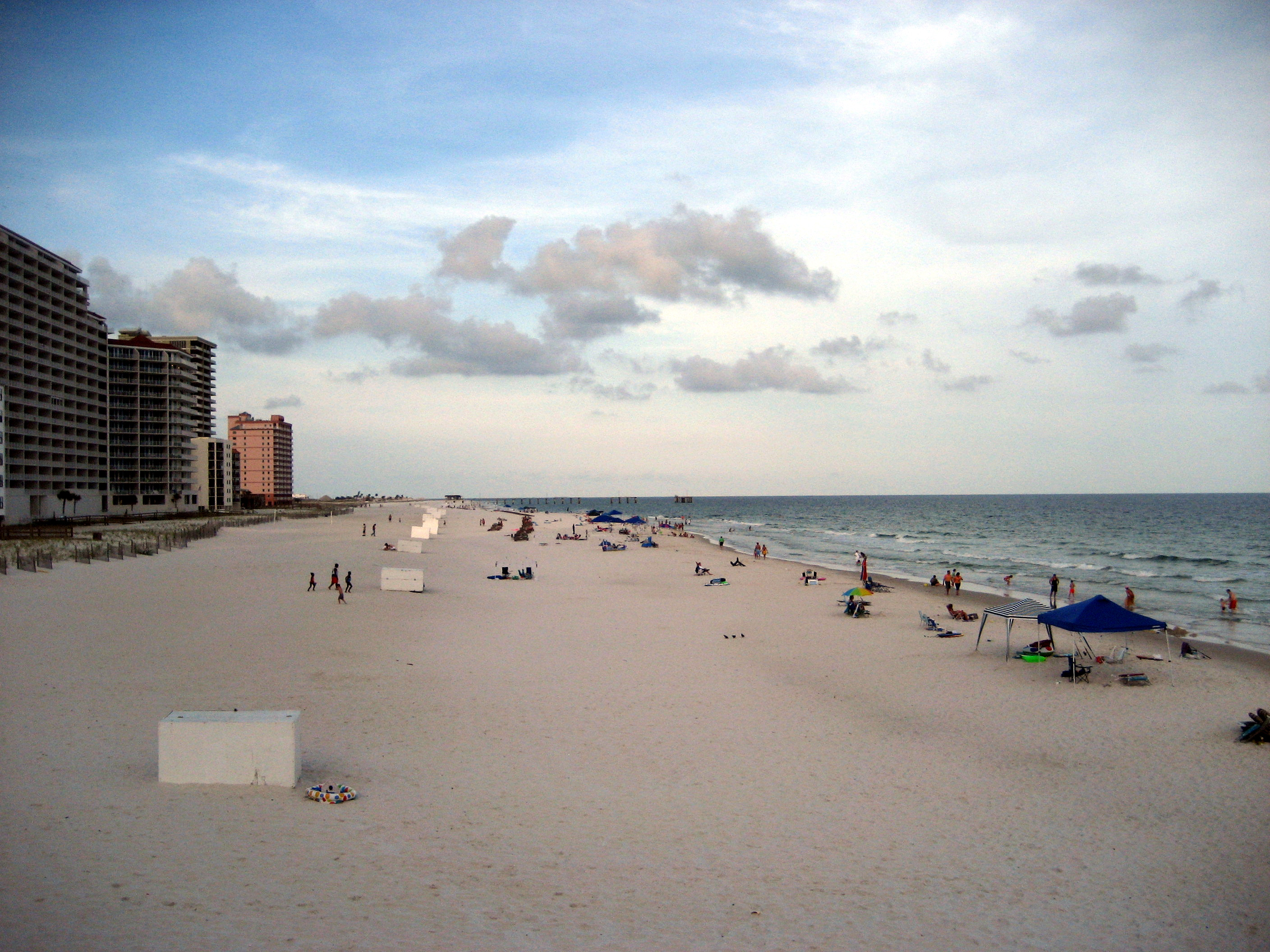 Gulf Shores, Alabama. Beach.